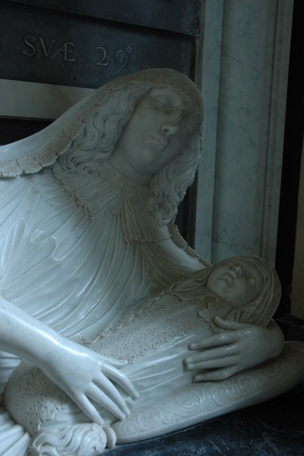 Monument, Croome D'Abitot Church Effigy of Mary, wife of the 2nd Lord Coventry, who died in child birth in 1634.